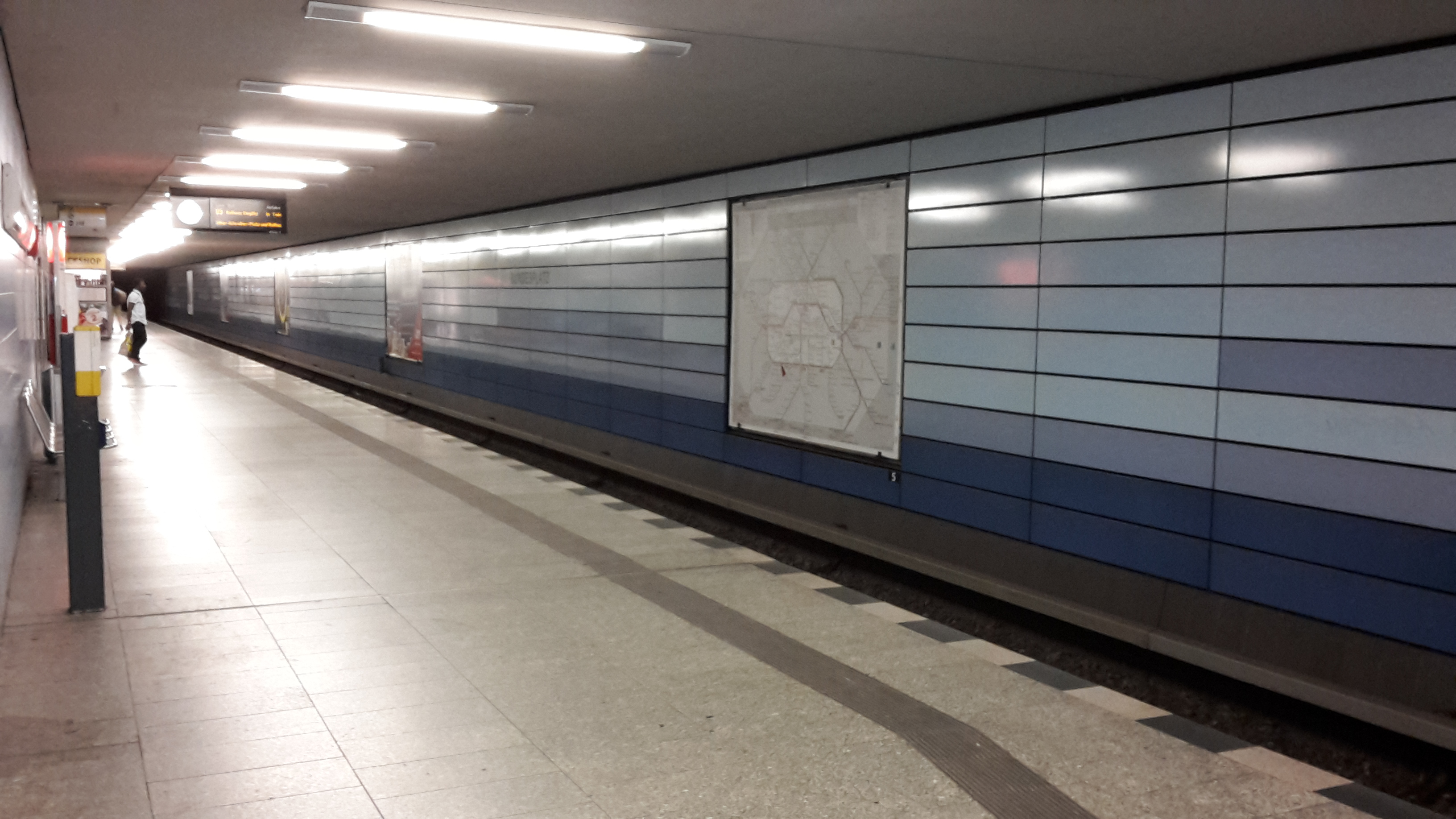 Bundesplatz underground station (line U9), platform in direction Rathaus Steglitz; Berlin, Germany